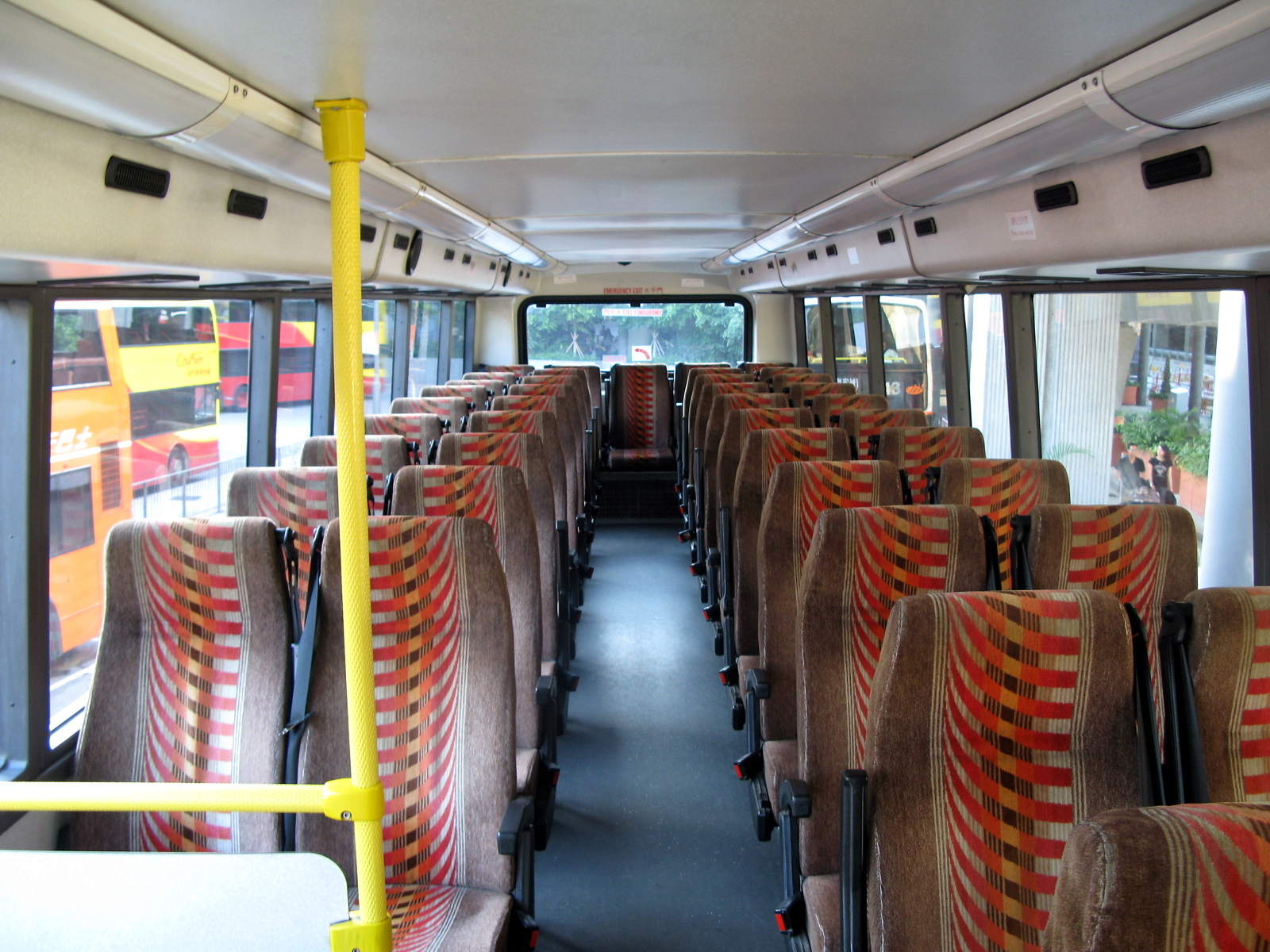 HK Long Win Bus Deluxe interior.